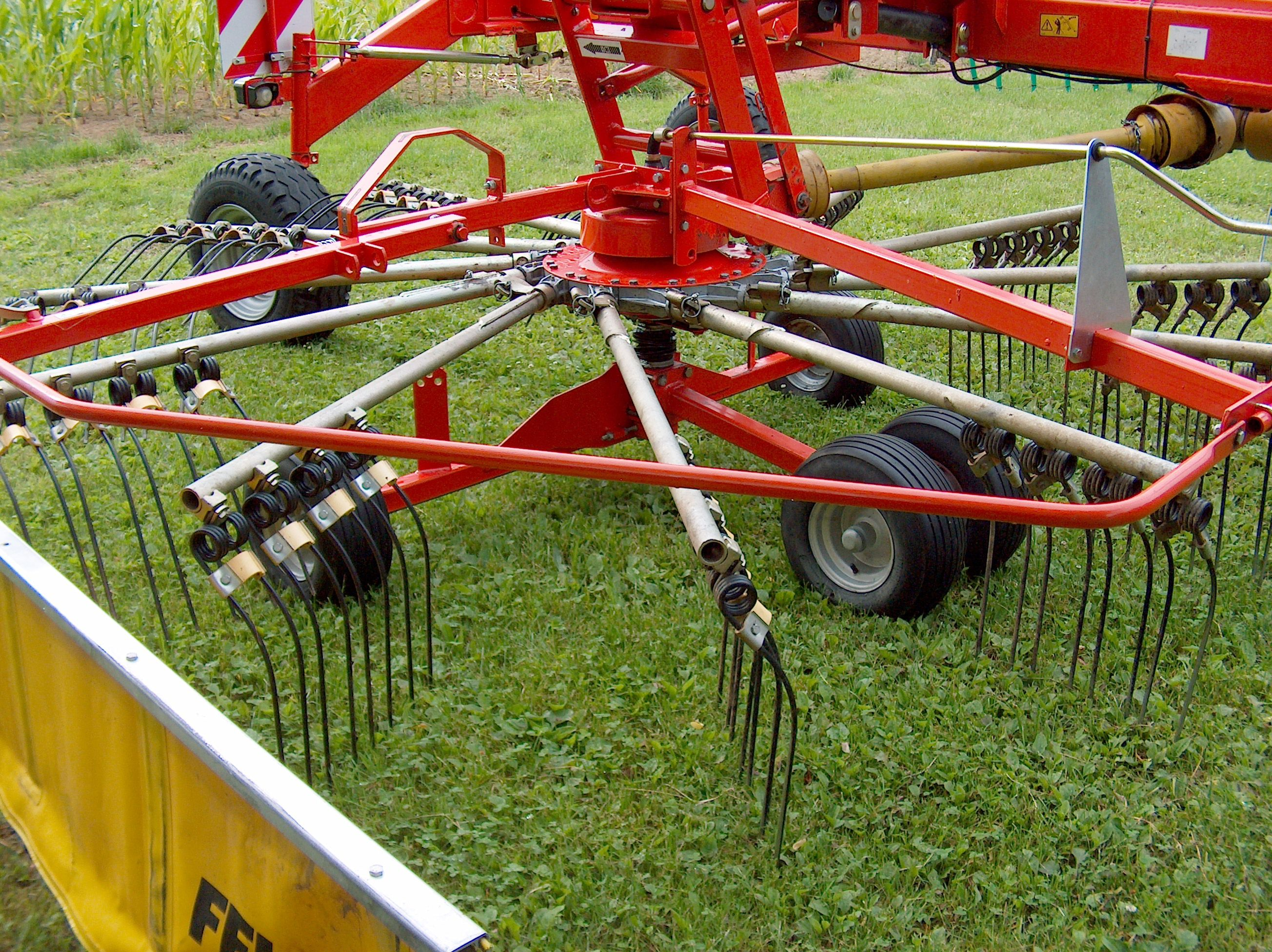 Detailed picture of a Fella rotary rake